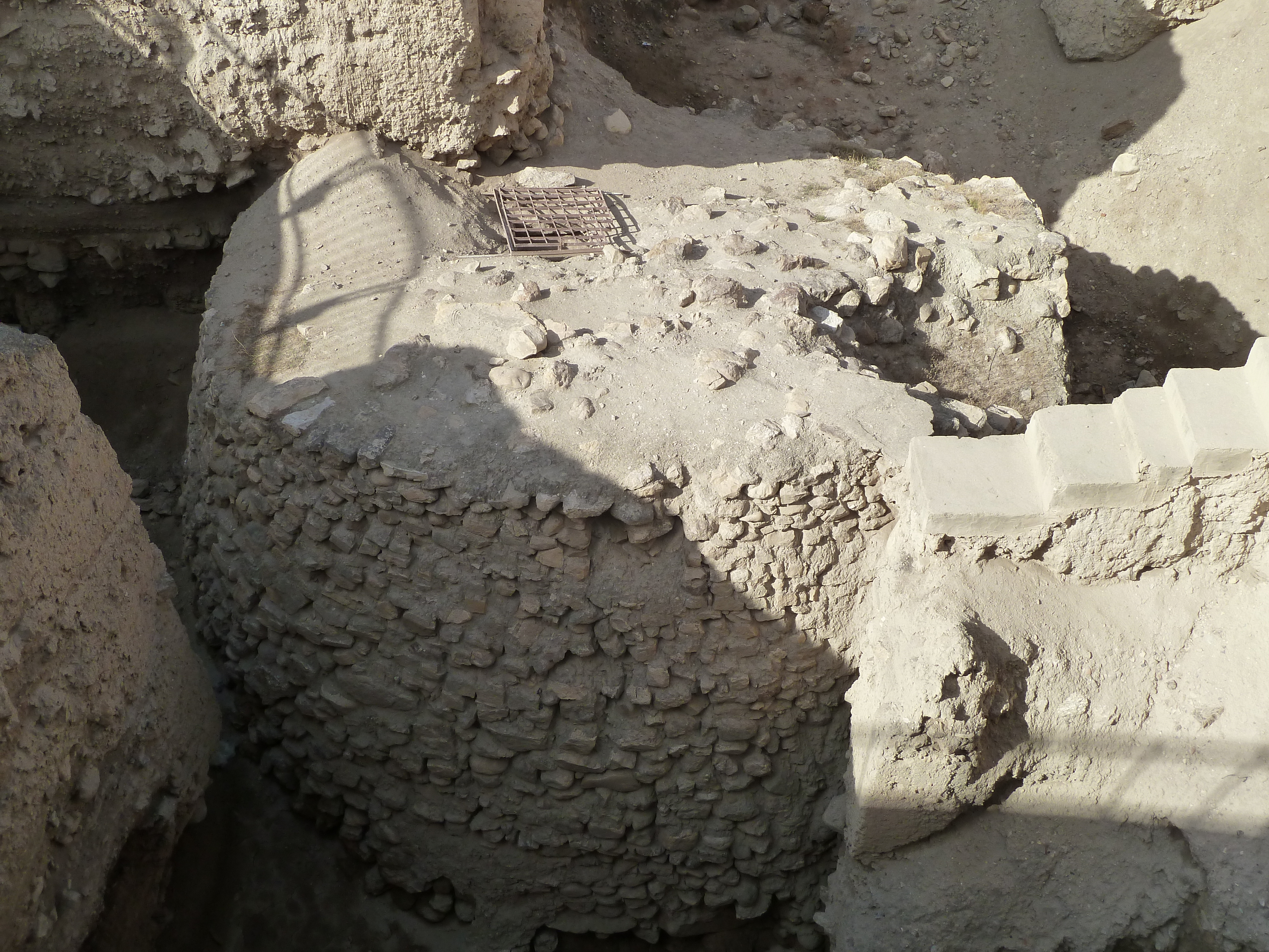 The Neolitic Tower, Tell Es Sultan, Jericho